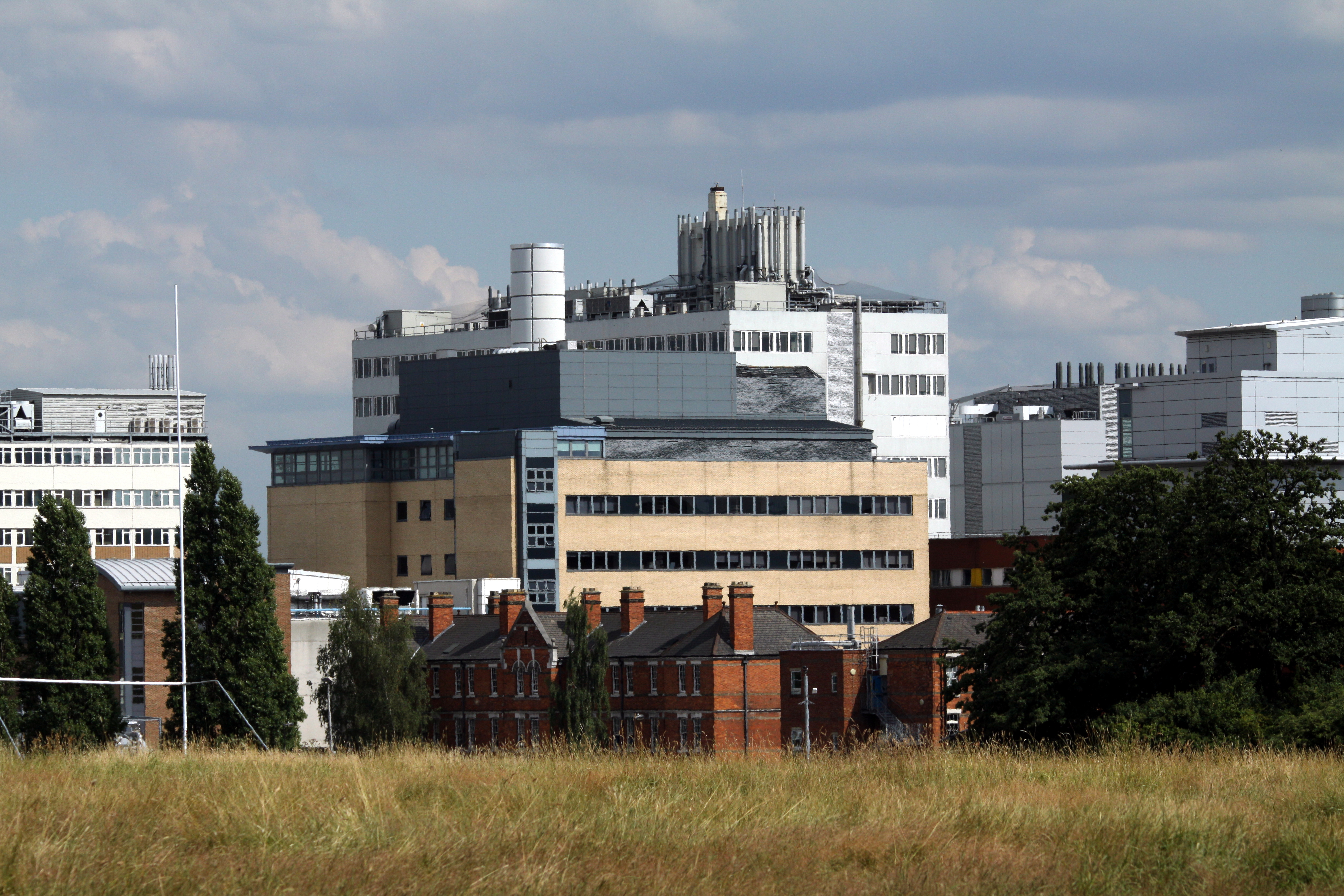 Hammersmith Hospital from Wormwood Scrubs Park in London, England, Great Britain. - Google Maps - Google Earth